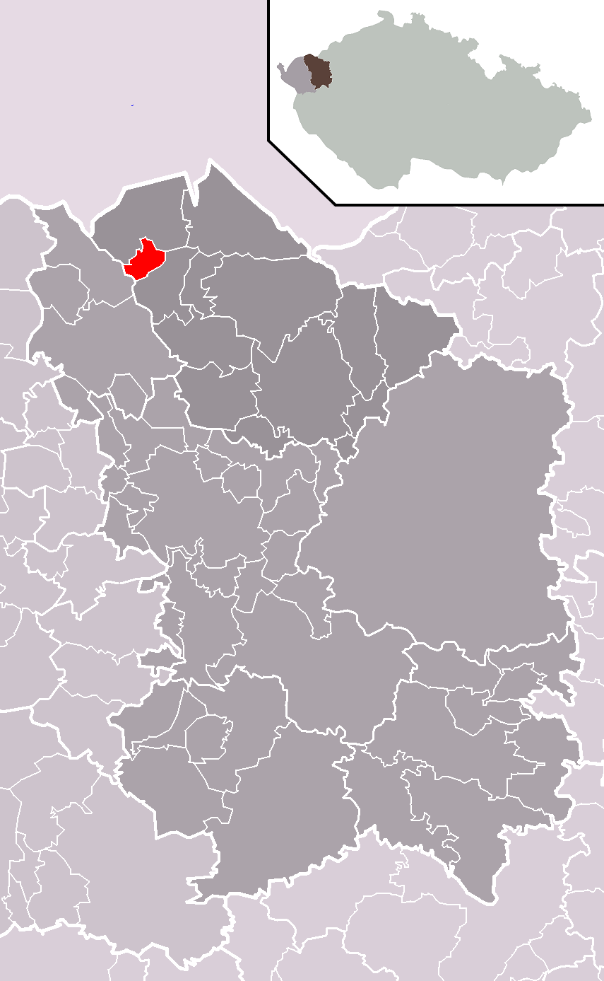 Location of Horní Blatná town within Karlovy Vary District and administrative area of Ostrov as a Municipality with Extended Competence.